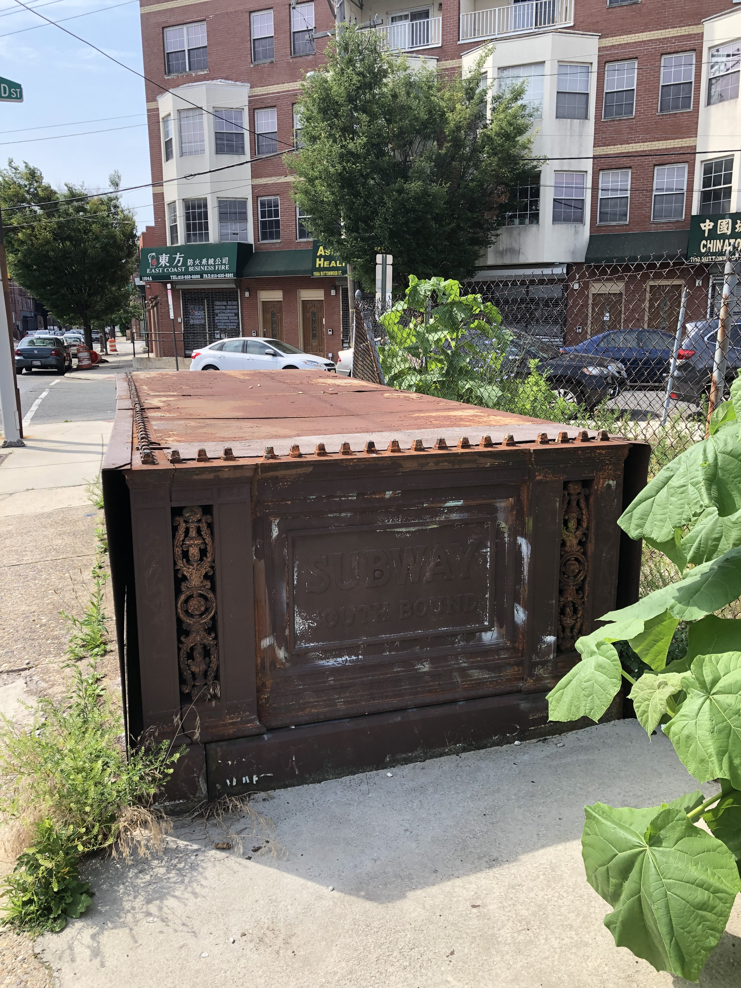 Spring Garden BRS Station